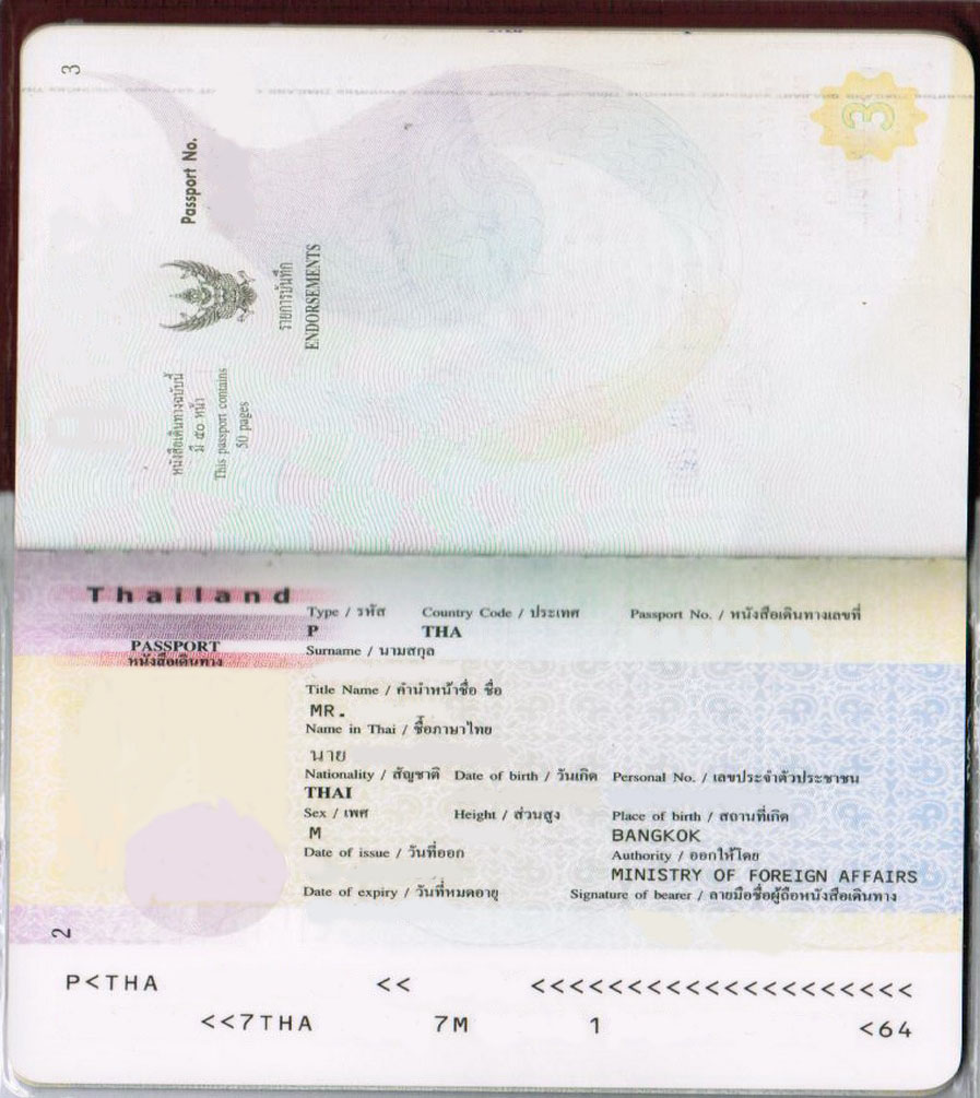 Thai passport information page